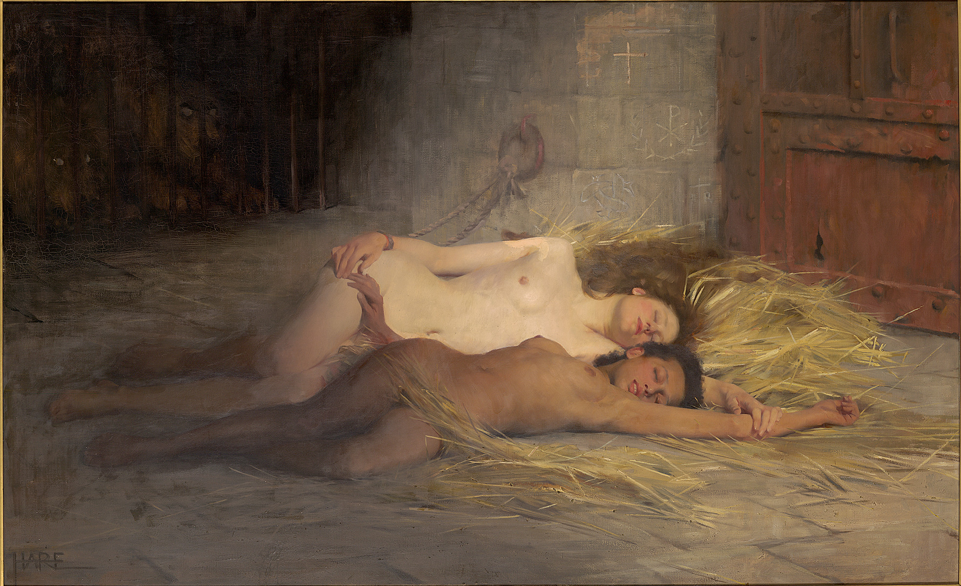 Two sleeping Christian martyrs waiting to be devoured by wild beasts, seen behind bars on the left “ "Two Christian maidens, nude, one fair the other a negress, lying asleep on some straw on the pavement before a lion's cage, through the bars of which the animals are glaring at the figures" ” —Academy Notes from the Royal Academy of Arts, 1889 “ "Victory of Faith" represents two converts to Christianity - a Caucasian and Ethiopian, mistress and maid - asleep on their dungeon bed of straw, and is masterful in design, whilst contrast is effected by opposites without any resort to glaring or overpowering leading lights." ” —1893 review of the Chicago's World's Fair printed in the Otago Witness